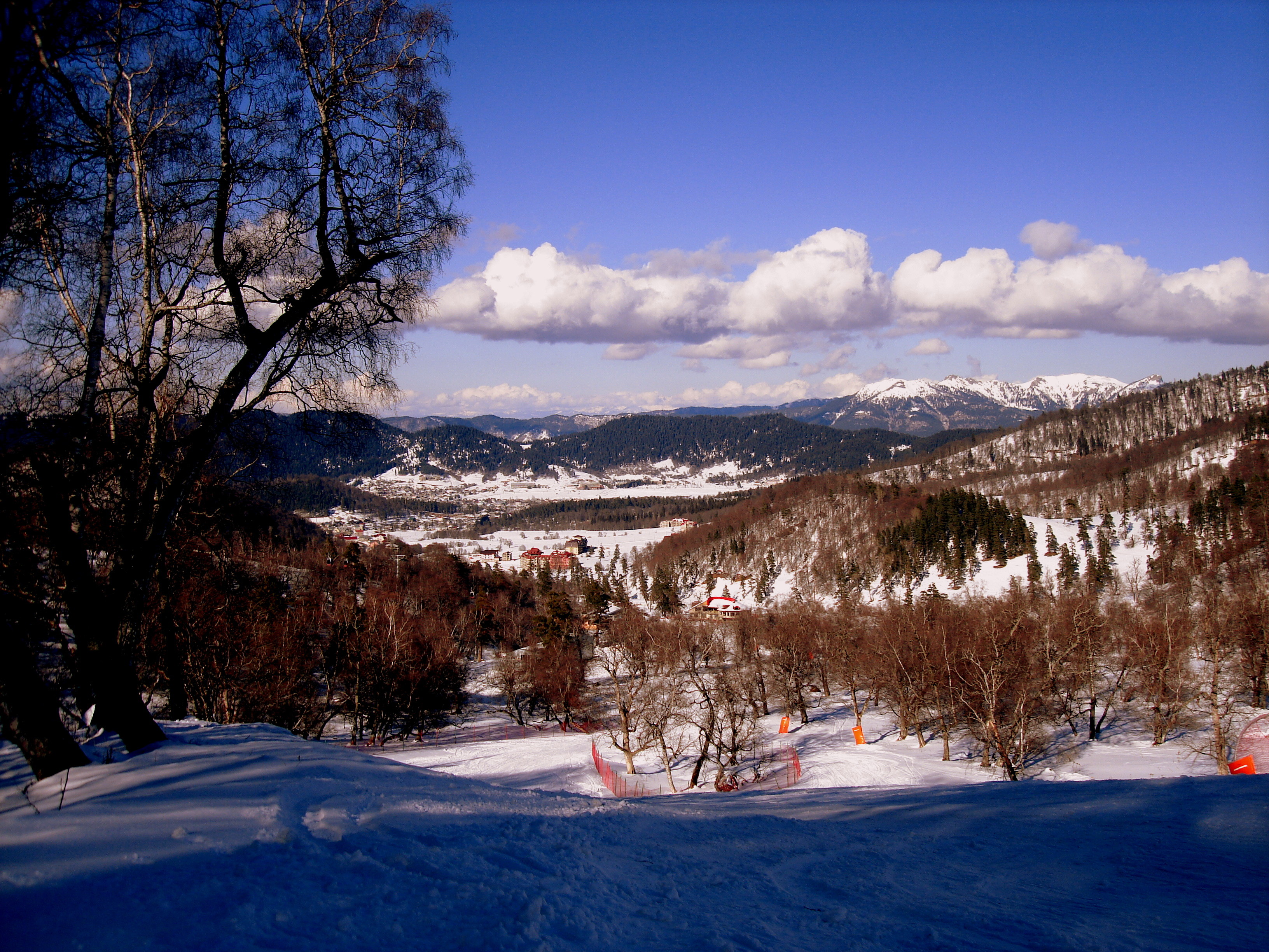 Bakuriani, Borjomi district of Georgia, view towards Didveli Valley.